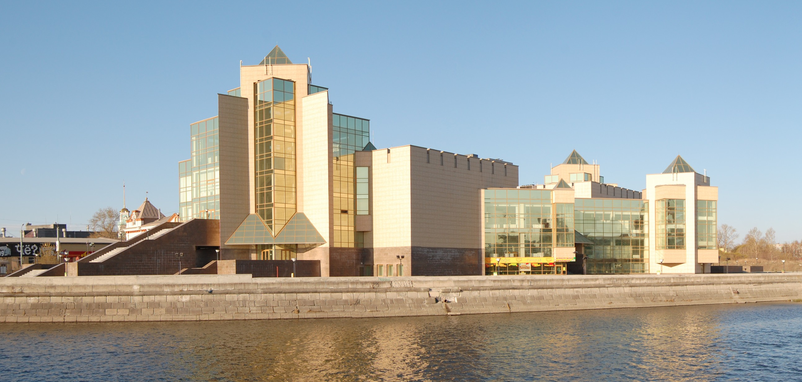 Museum in Chelyabinsk, Russia. City downtown.